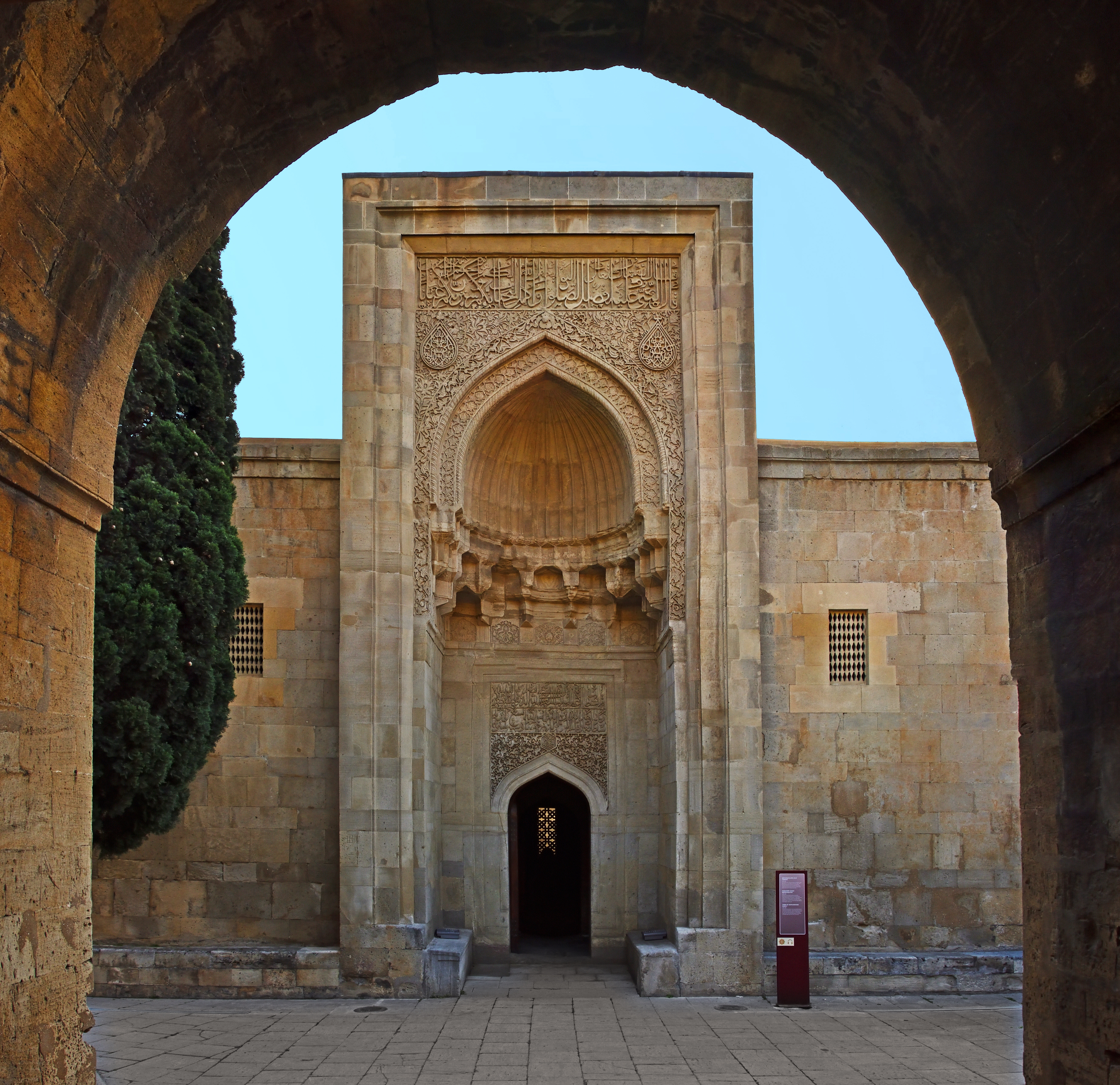 Main portal of Shirvanshah's burial vault, Baku, Azerbaijan